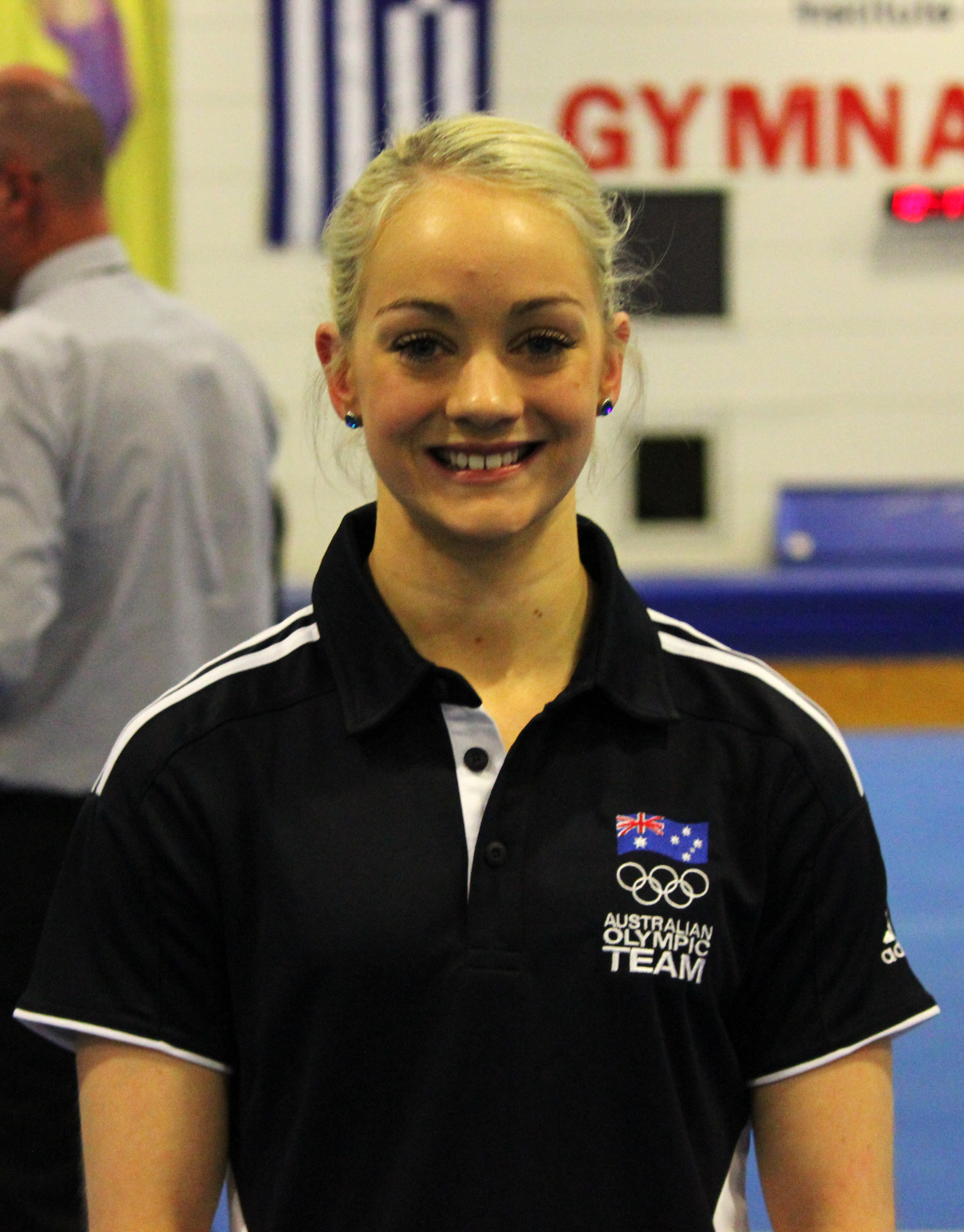 A close-up head shot of Larrissa Miller